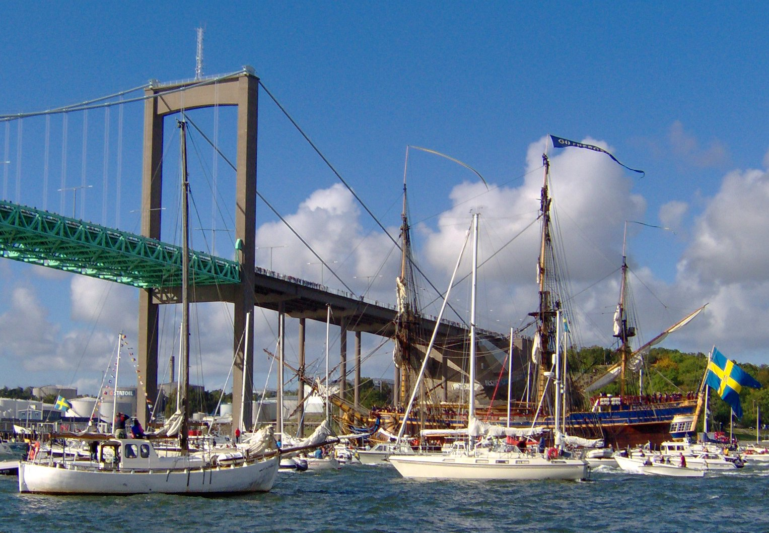 Sailingship Gothenburg replica starts it's voyage to sail to china and back. It's made after a famous 18th century sailing ship that sailed on the china trade.